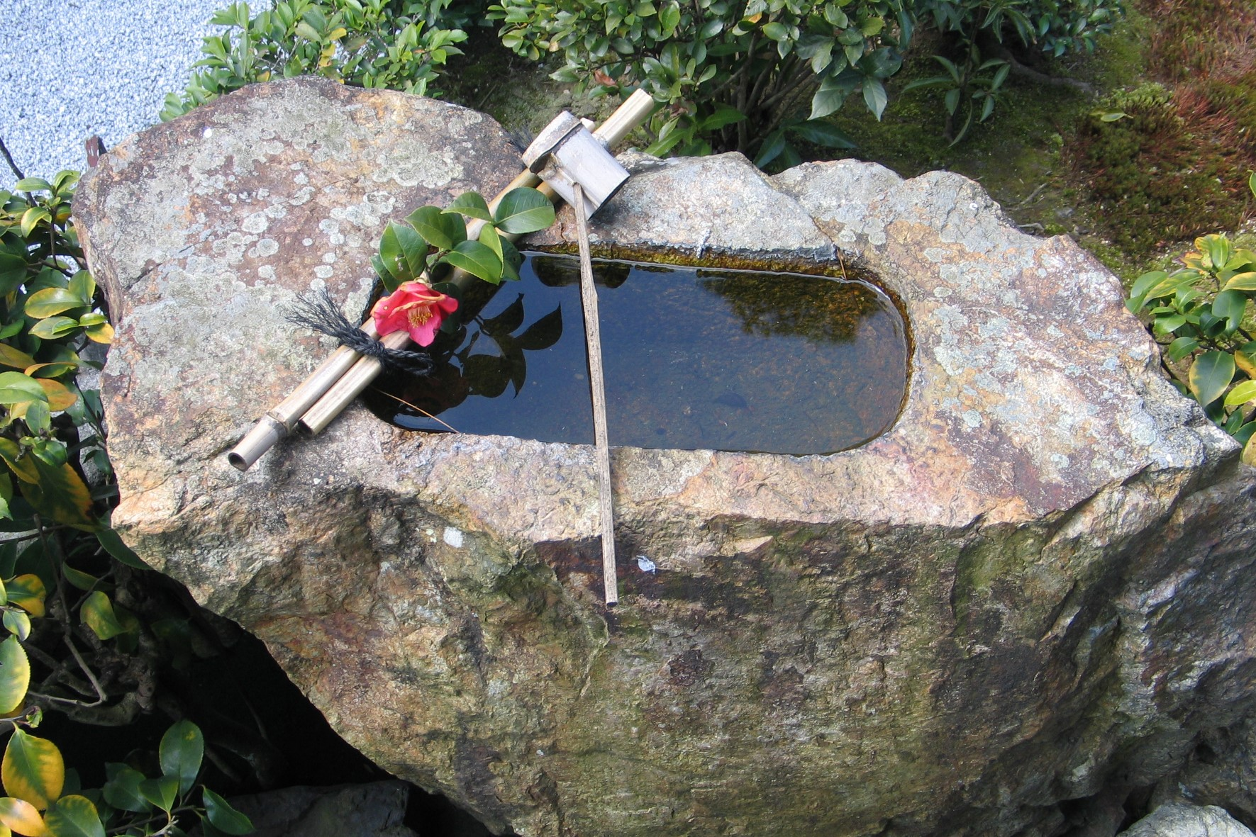 Teizo-in, garden